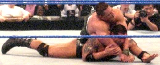 John Cena applying the STFU on Batista.